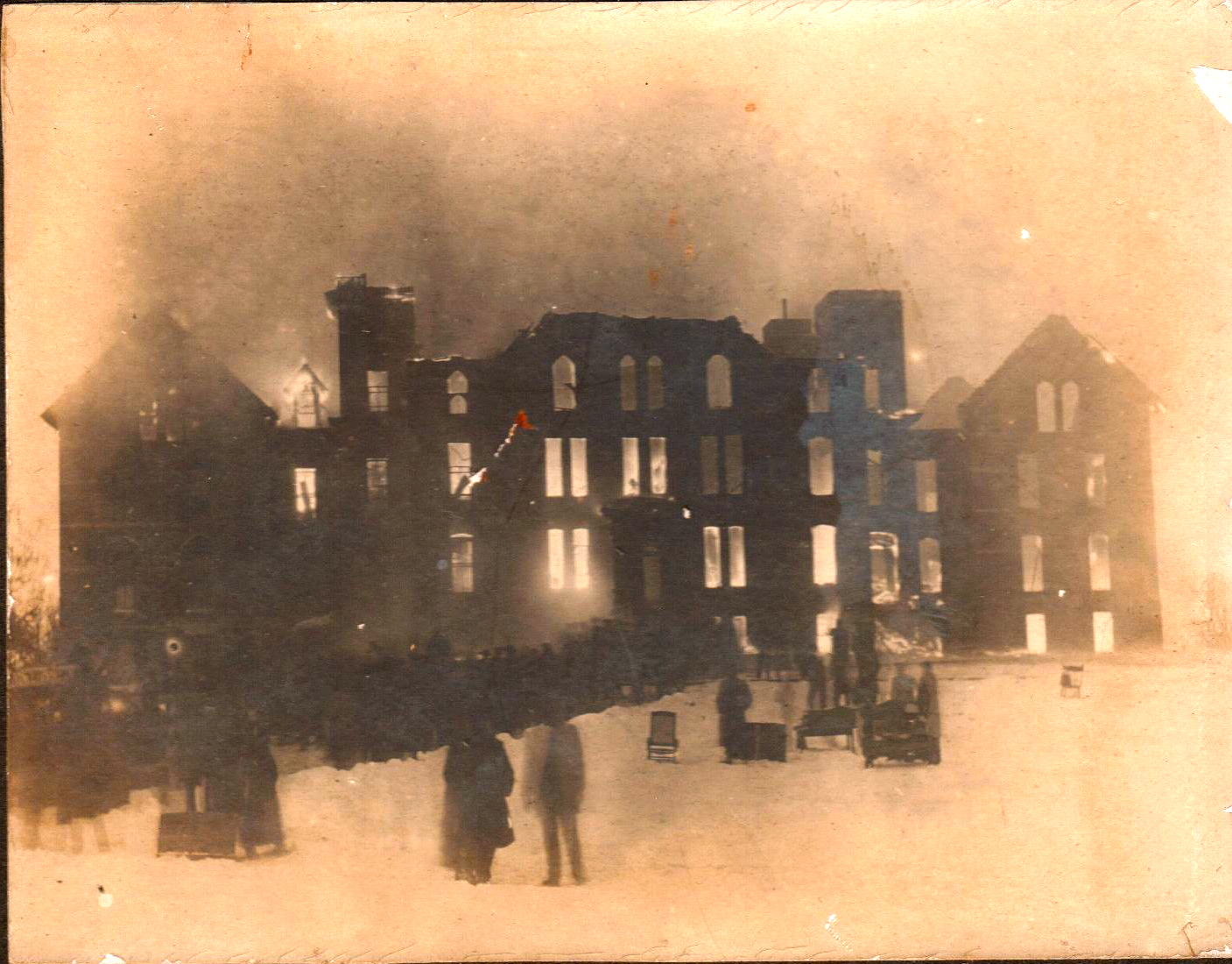 Fire at the original St. Mary's Academy in Monroe, Michigan, USA in 1929.